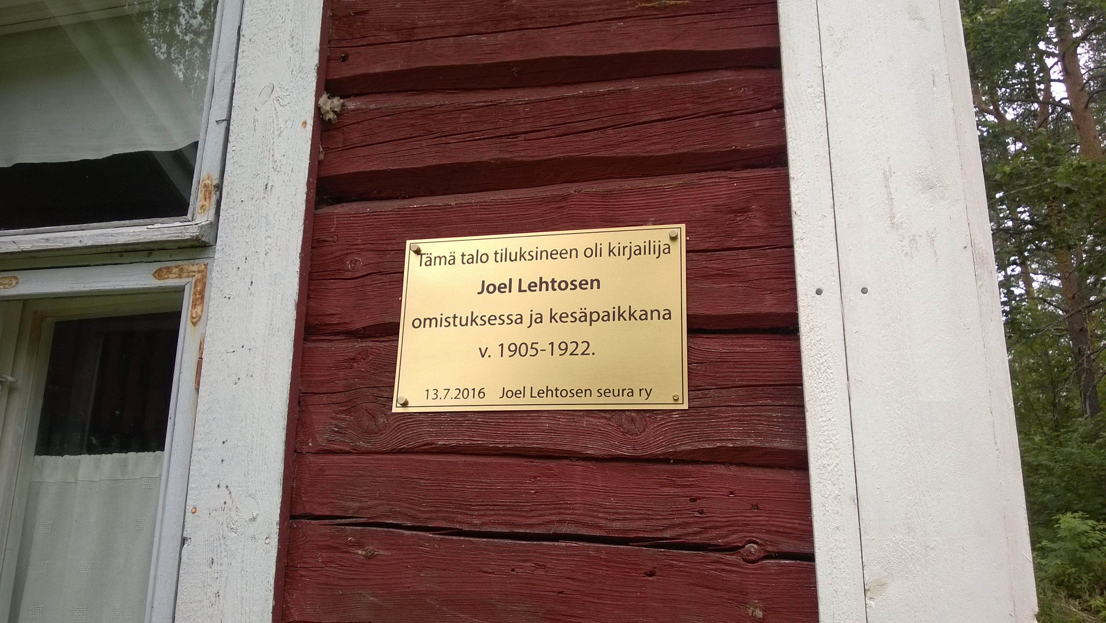 Putkinotko - Finnish writer Joel Lehtonen's house in Savonlinna.